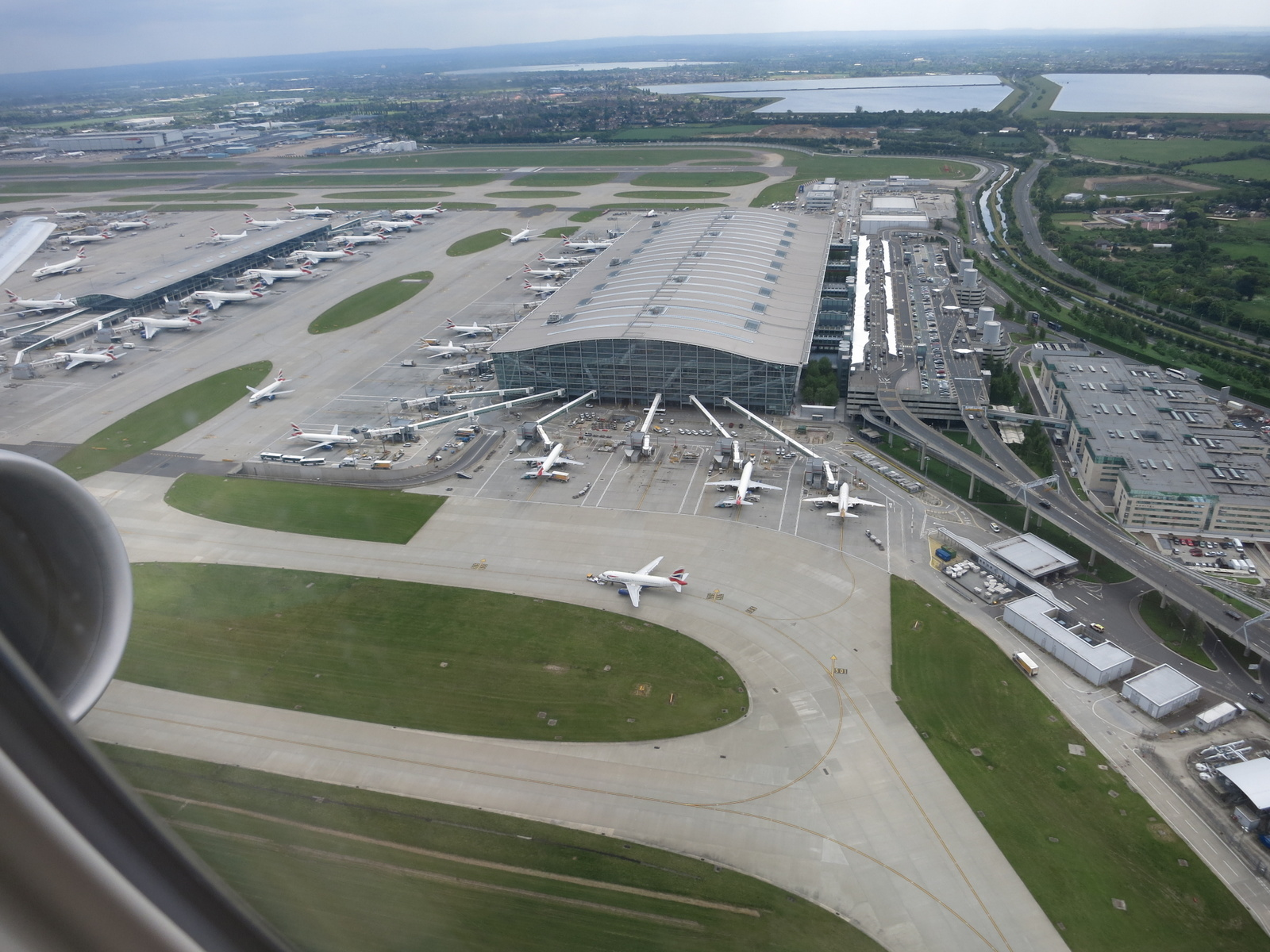 Heathrow terminal 5 from the air